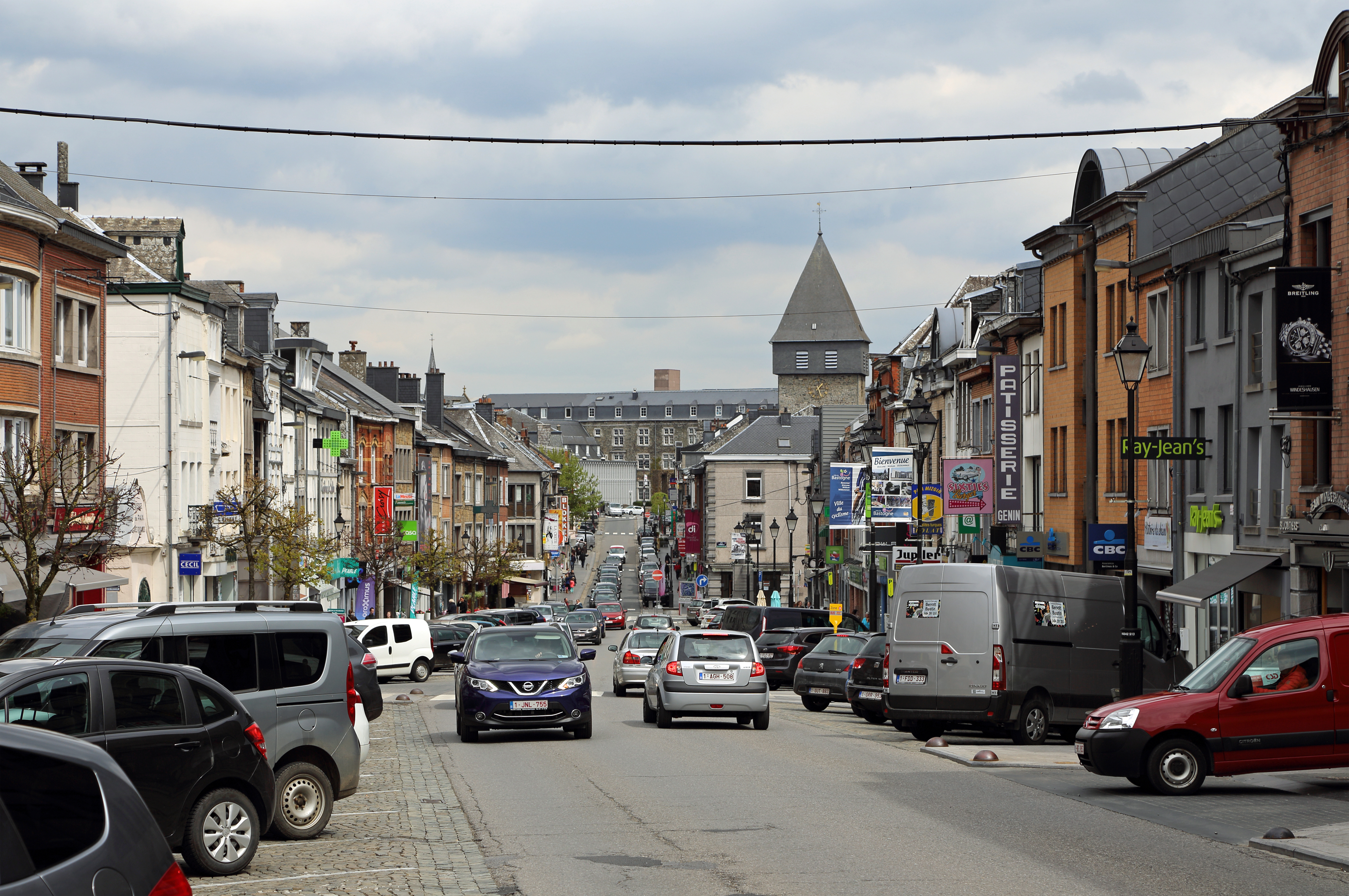 Bastogne (Belgium): the Rue du Sablon